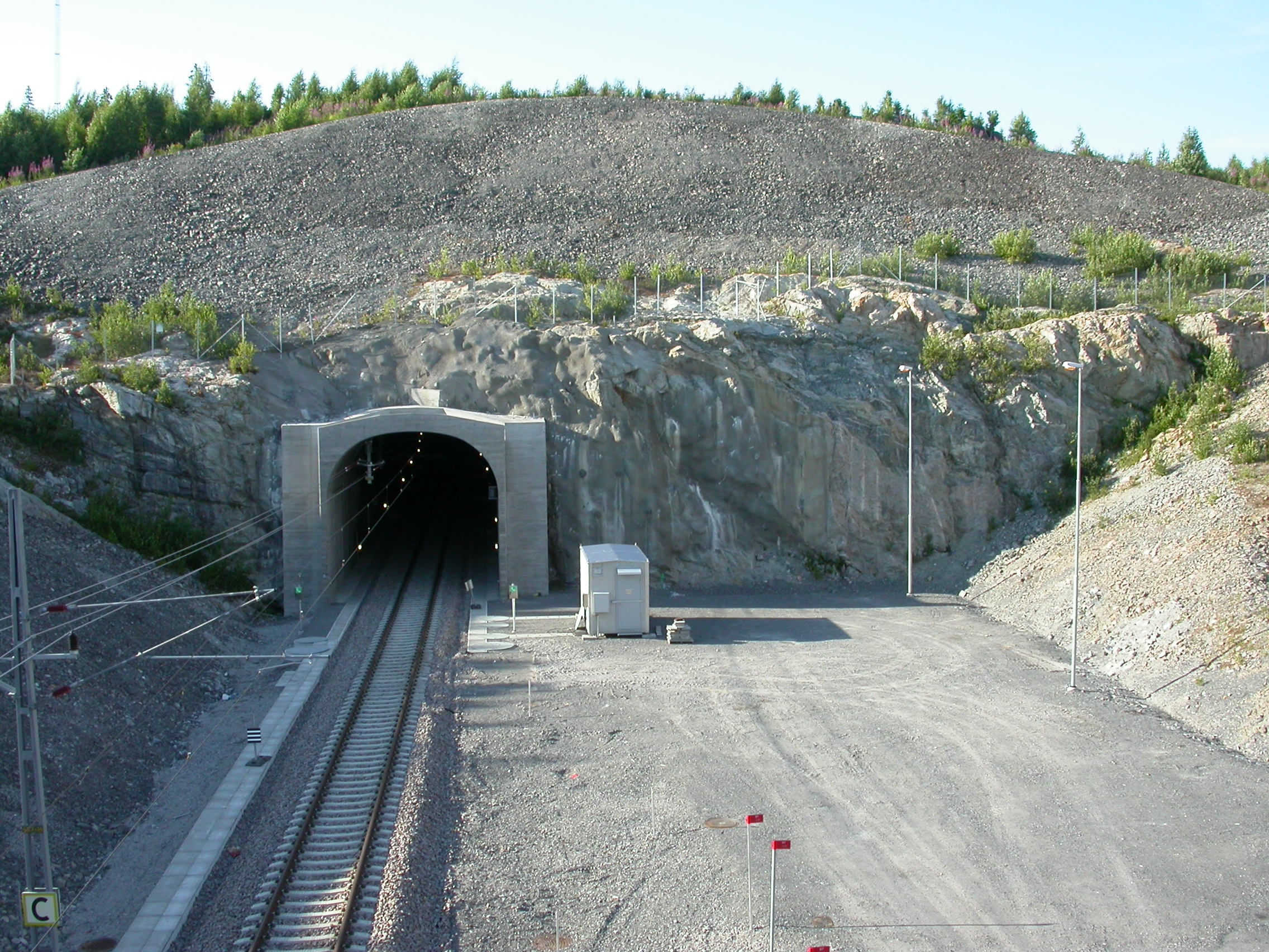 South entrance of Bjässholmstunneln on Ådalen railway line in Sweden